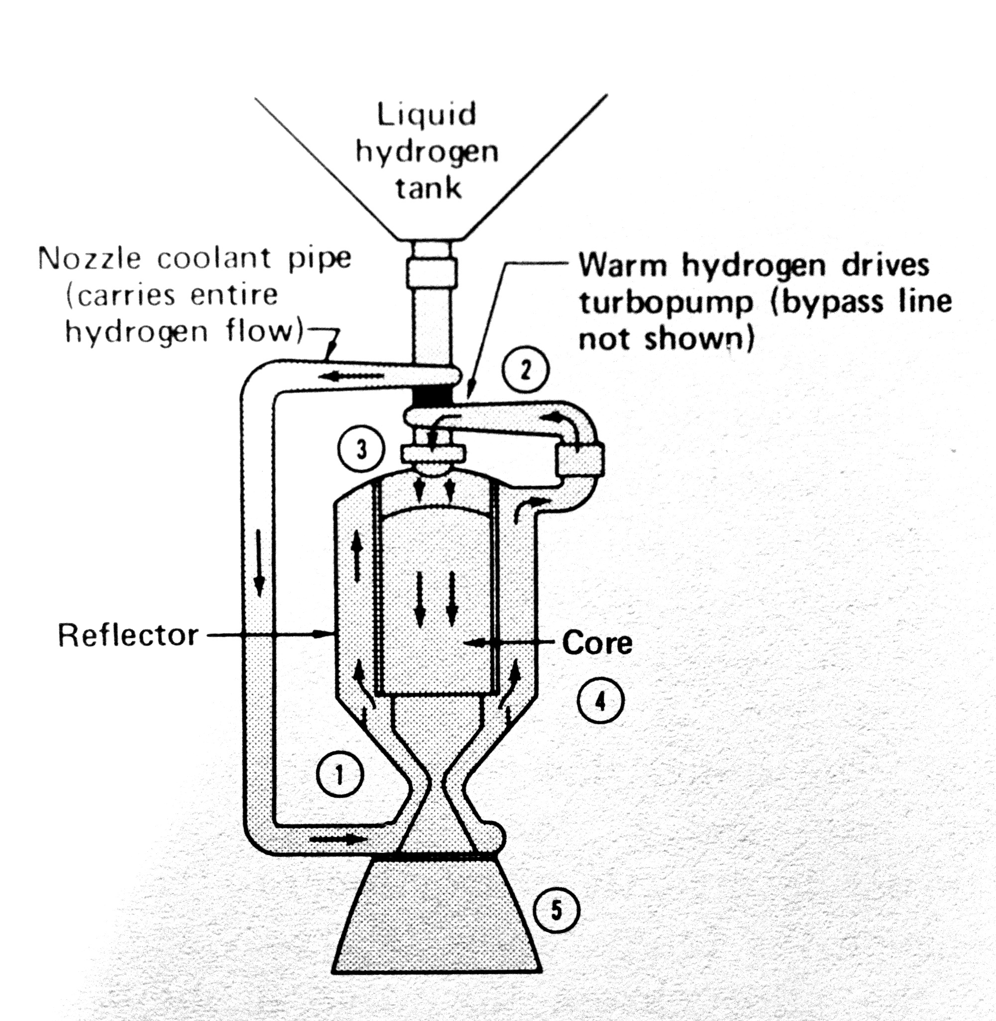 Flow schematic for NERVA engine.